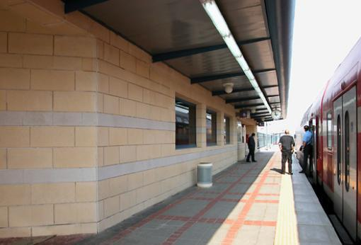 Ashdod Ad Halom Railway Station